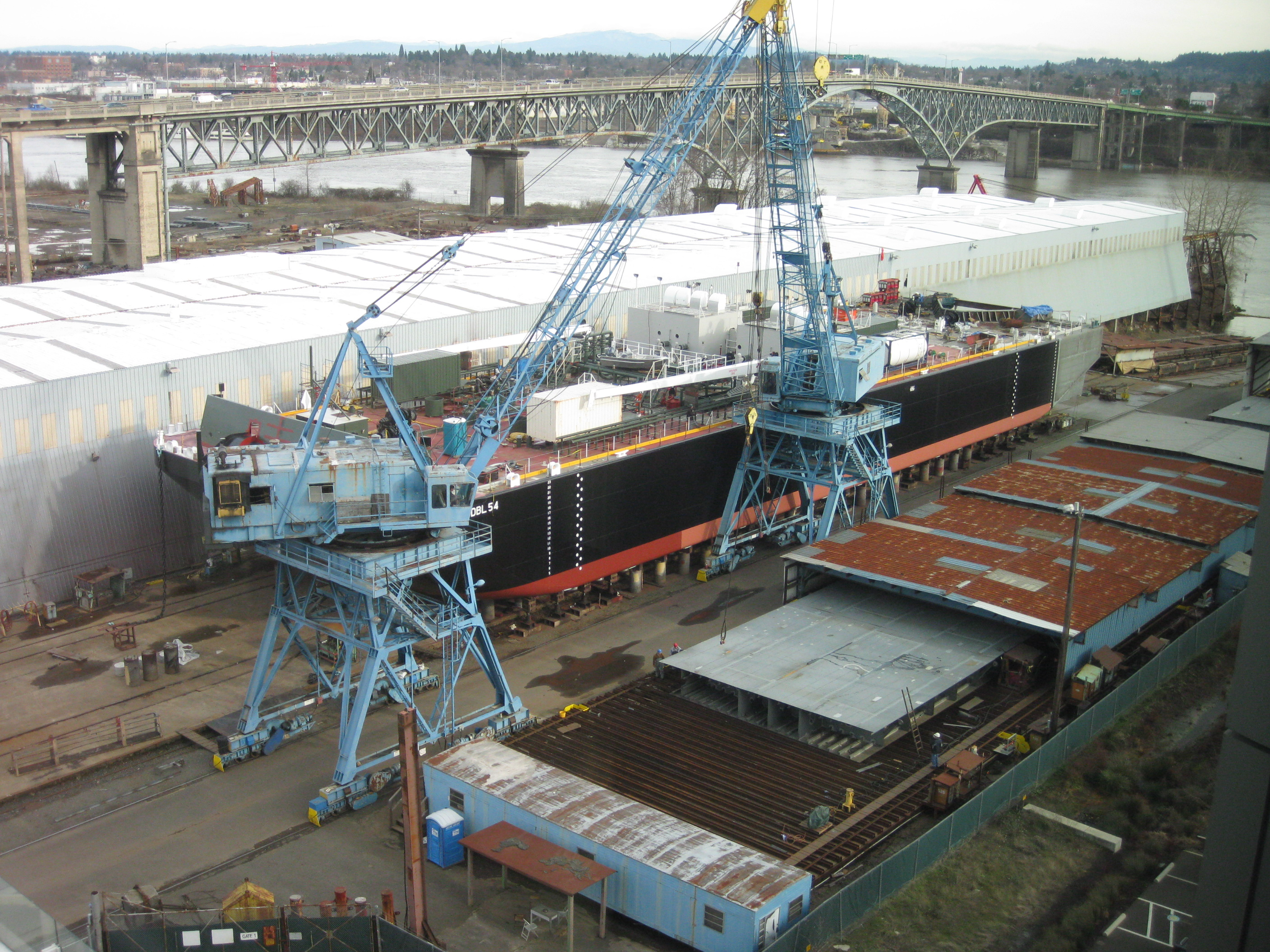 Zidell Marine Corporation, Portland Oregon. Builders of Steel barges